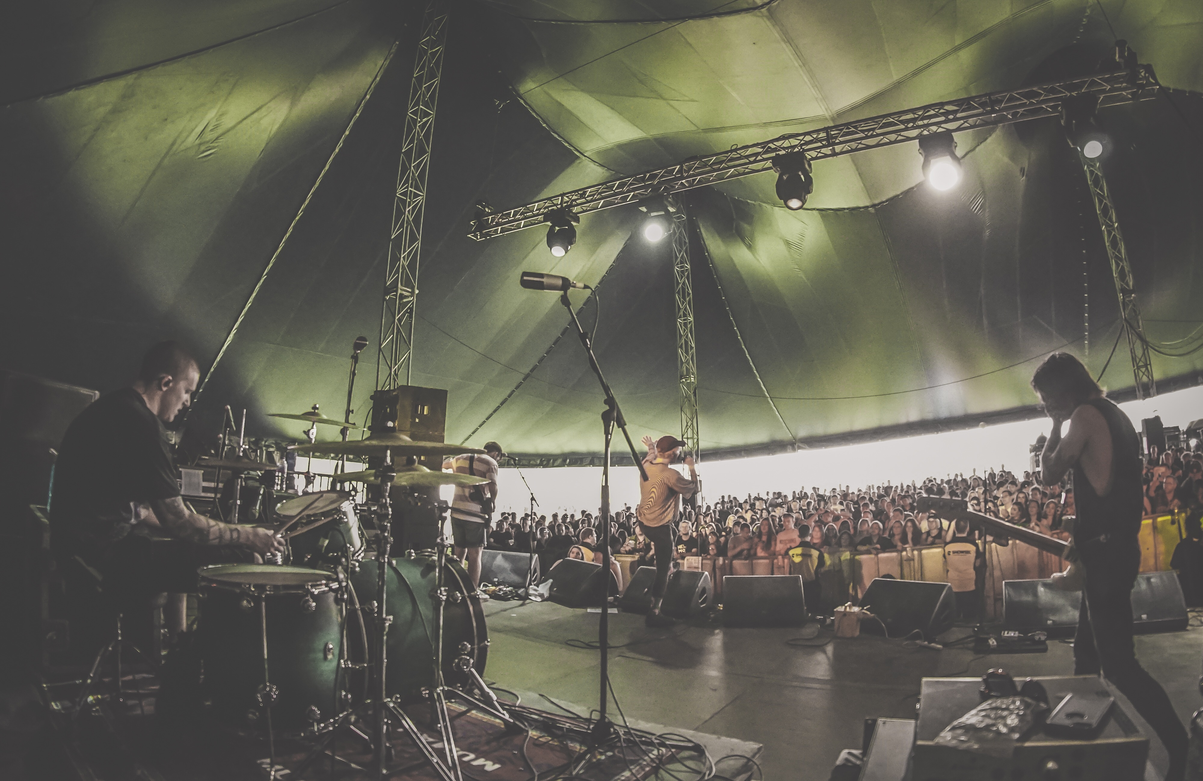 (from left to right featured in photo) Jonathan Landry, Diego Stanger, Janick Thibault and Simon Lepage performing at Slam Dunk Festival (UK) in May 2019.